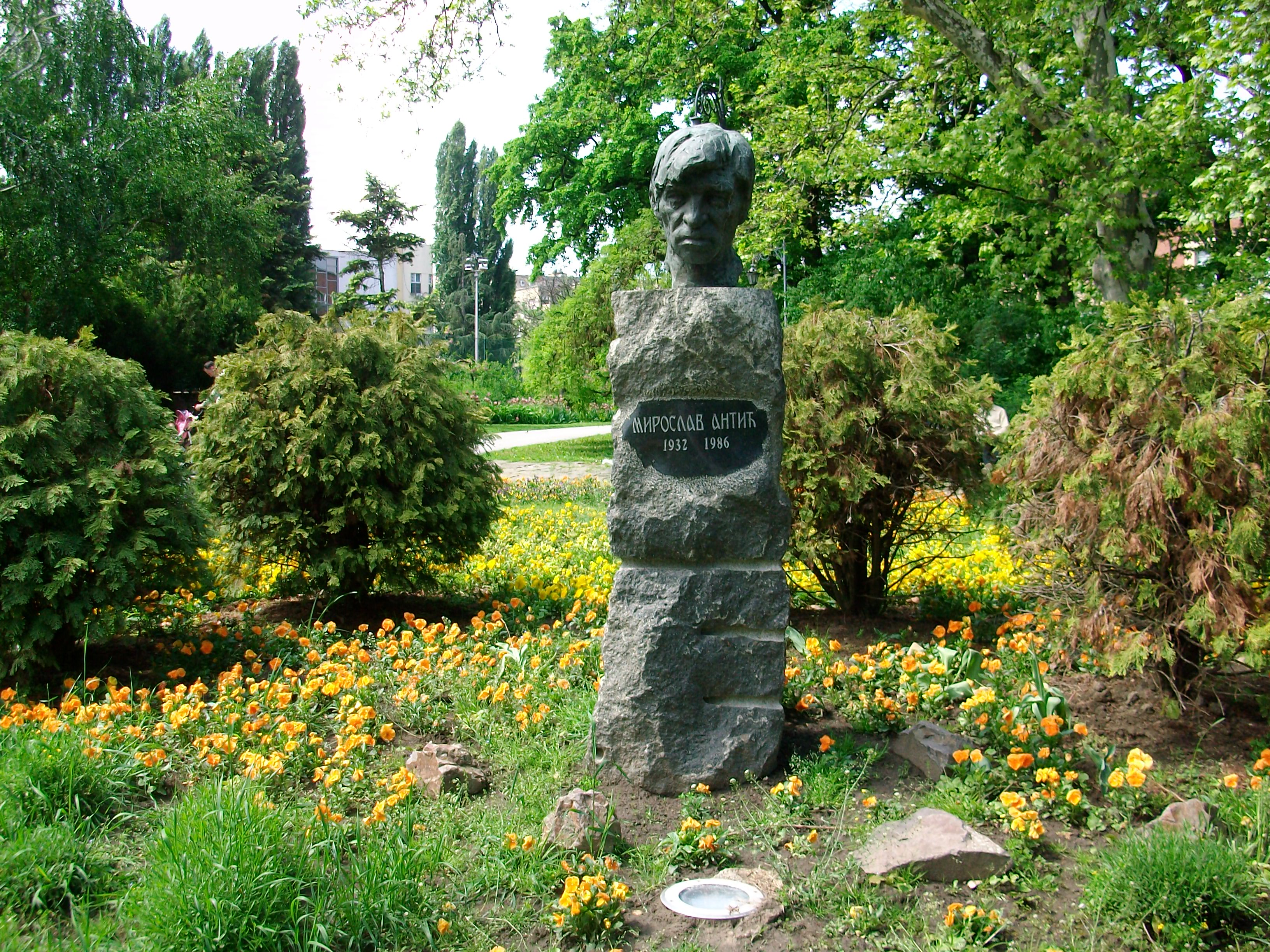 Monument to serbian poet Miroslav Antić in Novi Sad Српски (ћирилица): Споменик песнику Мирославу Антићу у Новом Саду